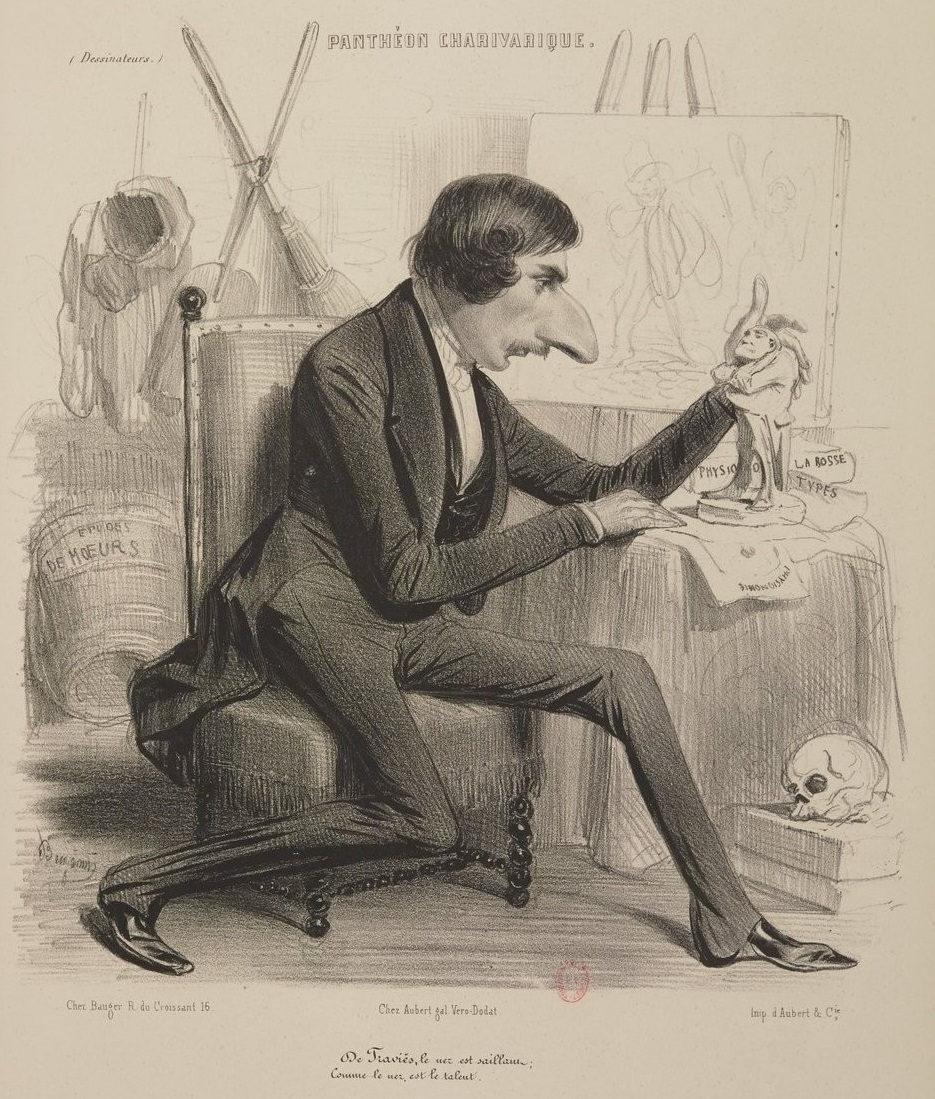 Caricature of Charles-Joseph Traviès de Villers, originally published in Panthéon charivarique